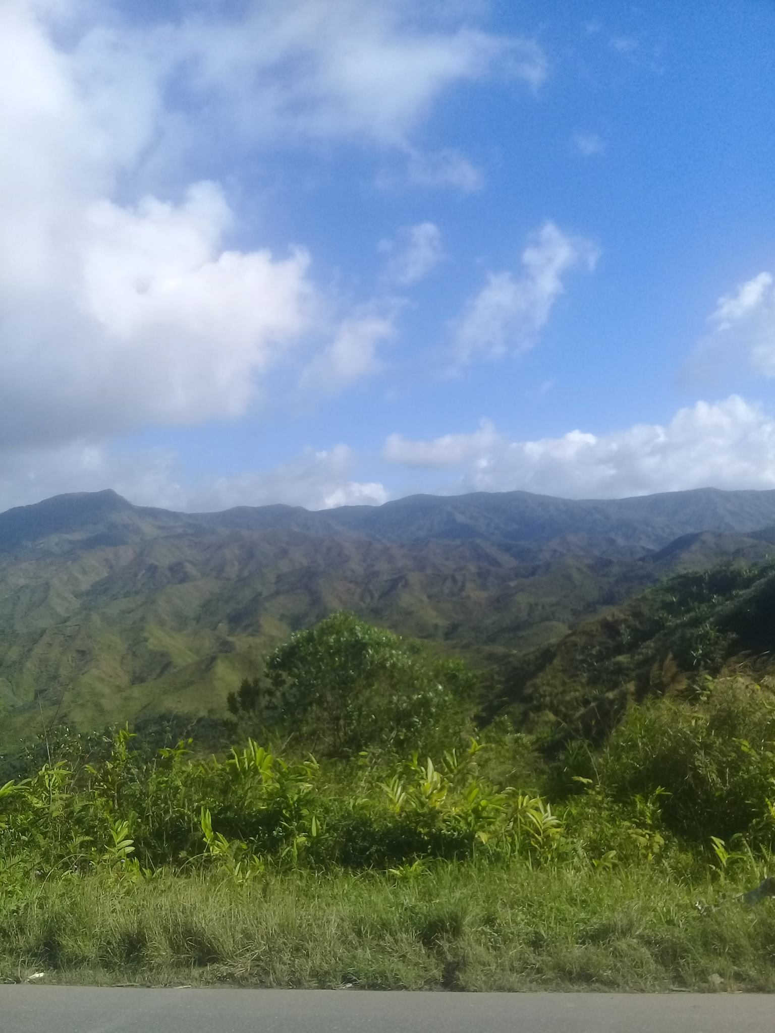 This is an image with the theme "Play" from: Madagascar